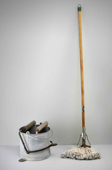 Pieces of the Collection of Disseny Hub Barcelona